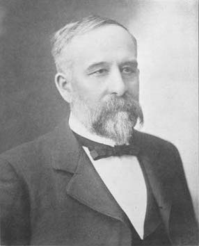 The Cornhusker, the Book of the Upper Classes of the University of Nebraska Dedication Page